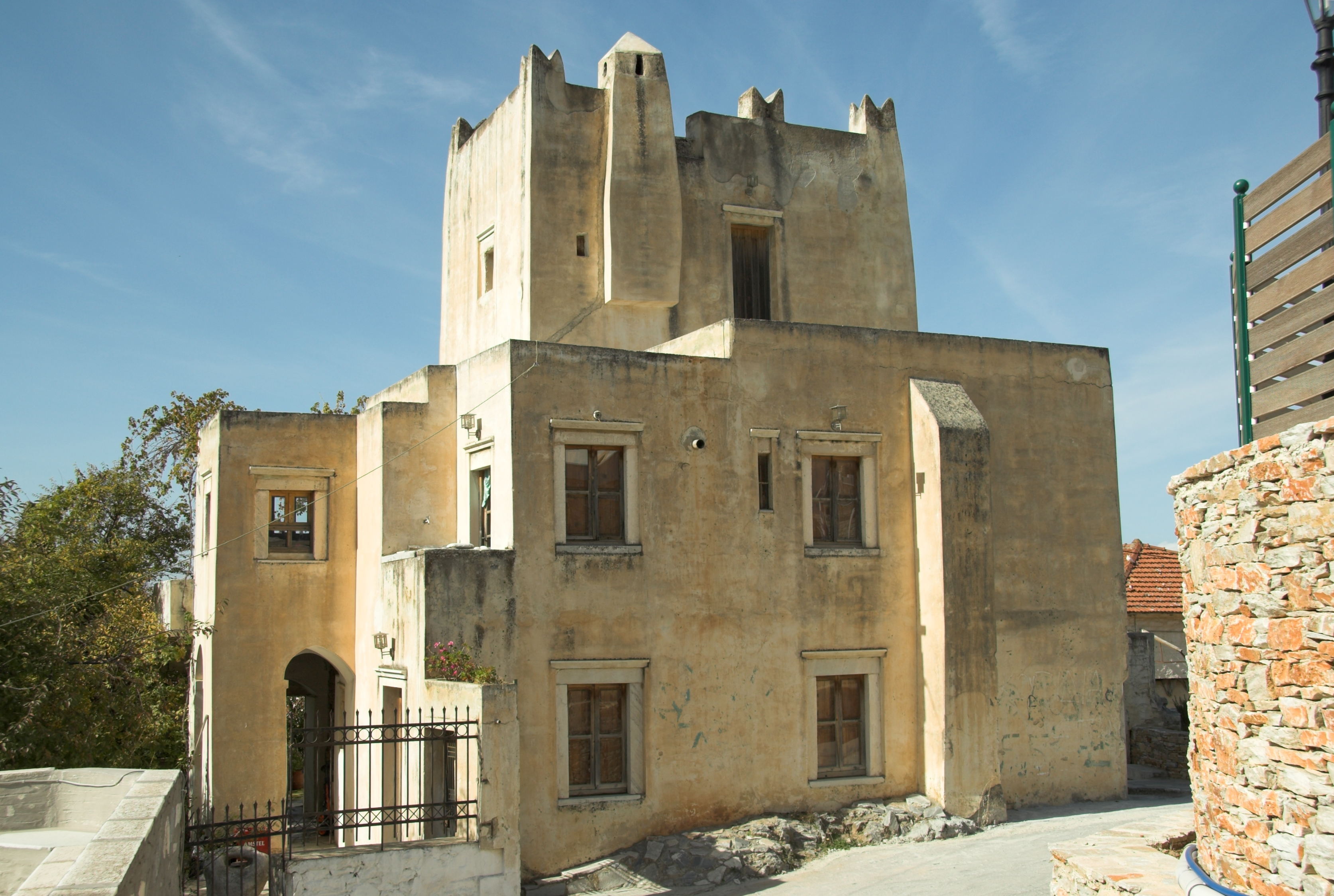 Tower ("Pyrgos") of family Barozzi in Filoti on Naxos. Commemorated in 1620.